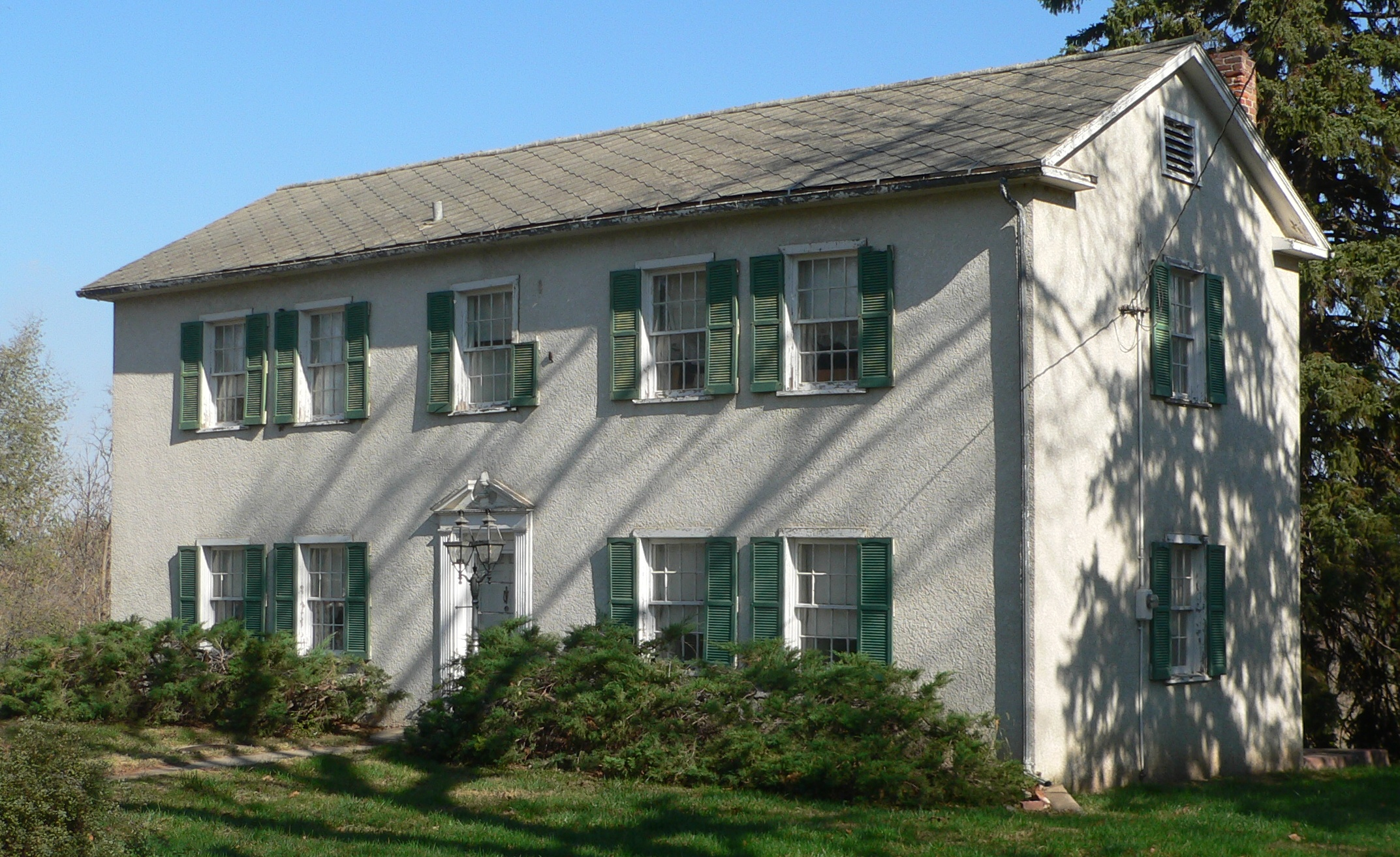 William Hamilton house, located at 2003 Bluff Street in Bellevue, Nebraska; seen from the southwest.